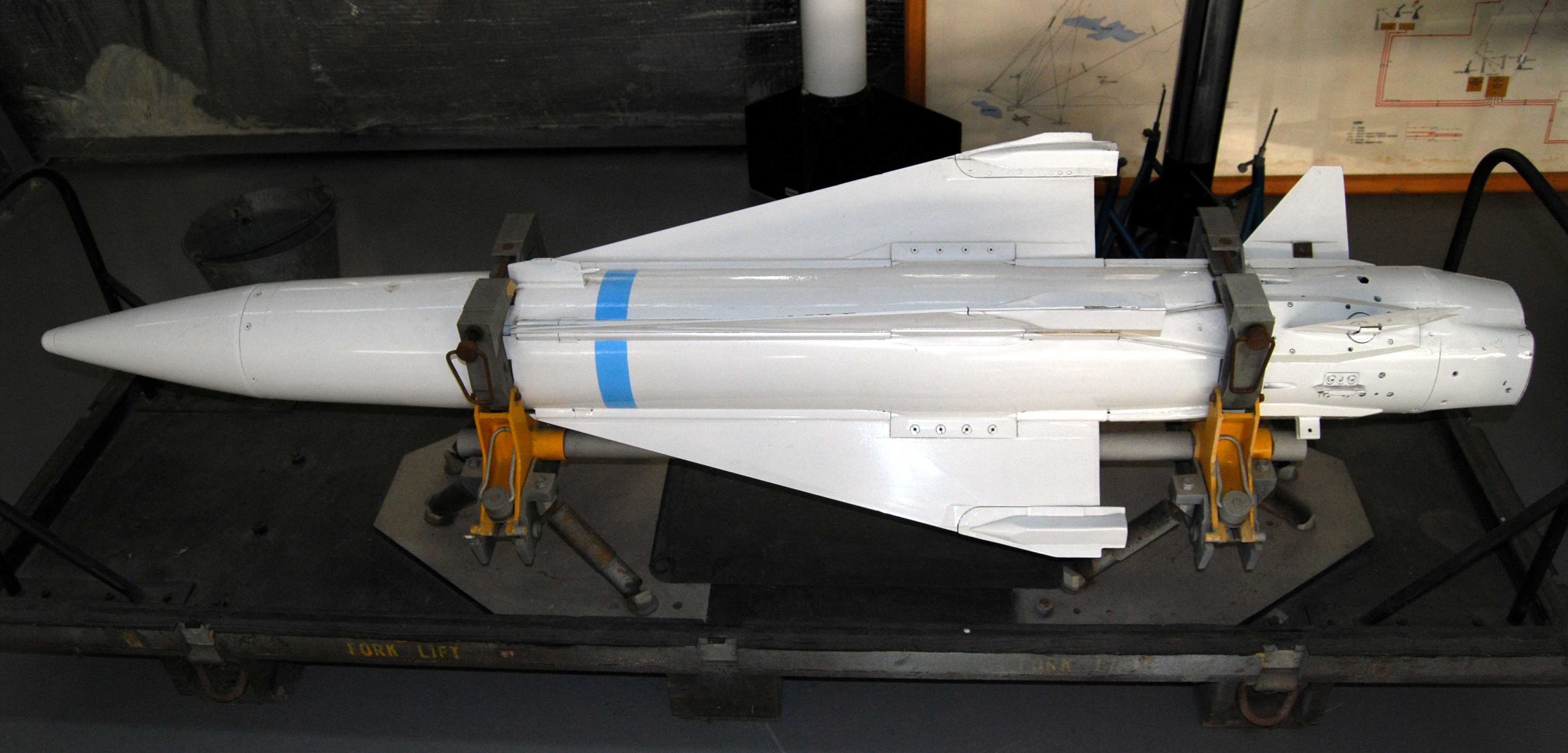 A Sea Wolf surface-to-air missile on display at the South Australian Aviation Museum, Port Adelaide